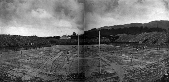 The California Field during the famous "mud game", attended by 23,000 spectators.